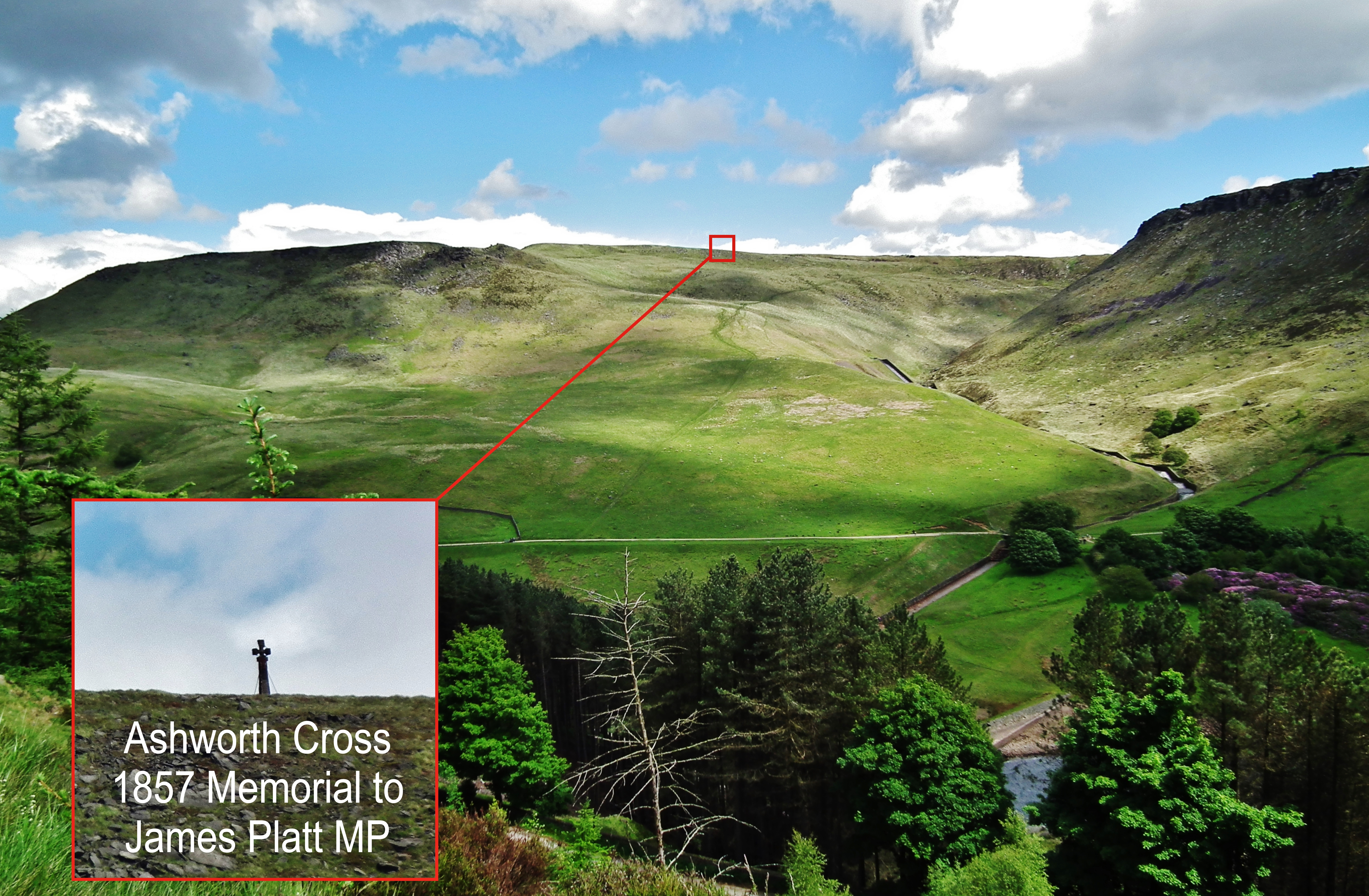 The Ashworth Cross, above the 'Ashway Gap', overlooking Dovestone reservoir is a memorial to James Platt, the MP for Oldham, who "was killed there by an accidental discharge of his own gun" in 1857.